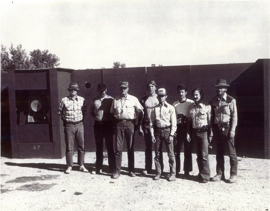 Gunsite Ranch, 1977. Jeff Cooper is third from the left of the photograph